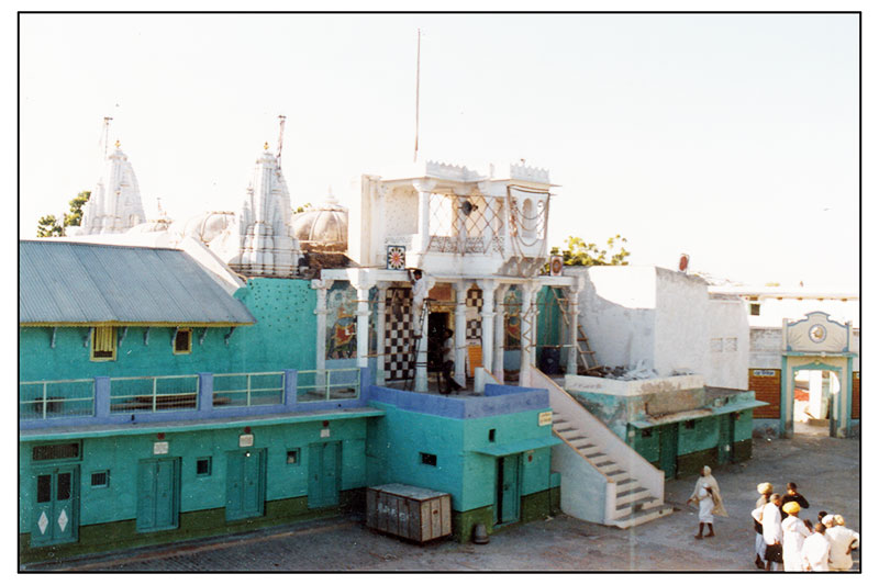 Shri Bhandavpur Tirth Old Photo